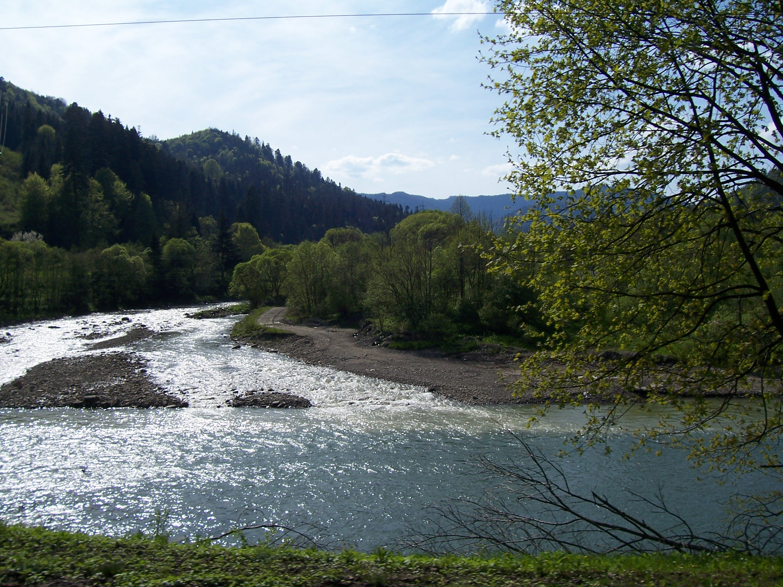 View of the Carpathian Mountains.